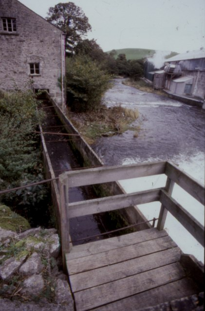 Heron Corn Mill Sluice Head and Leat A lifting sluice gate allows water to flow along the leat into the mill building to power the water wheel. On opposite bank of the river Bela is a modern paper making factory. The sluice is situated above a natural water fall.